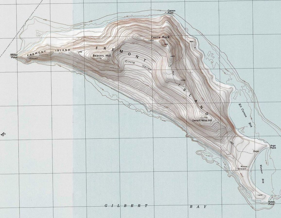 USGS Topographic map of Fremont Island